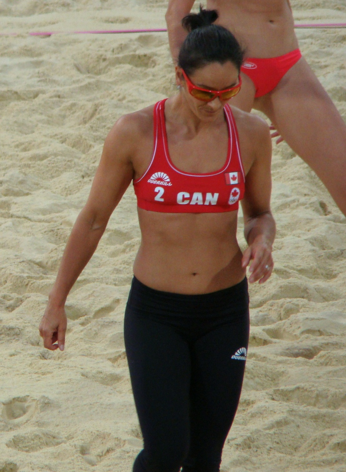 Competing against the Russian team at the 2012 Summer Olympics.